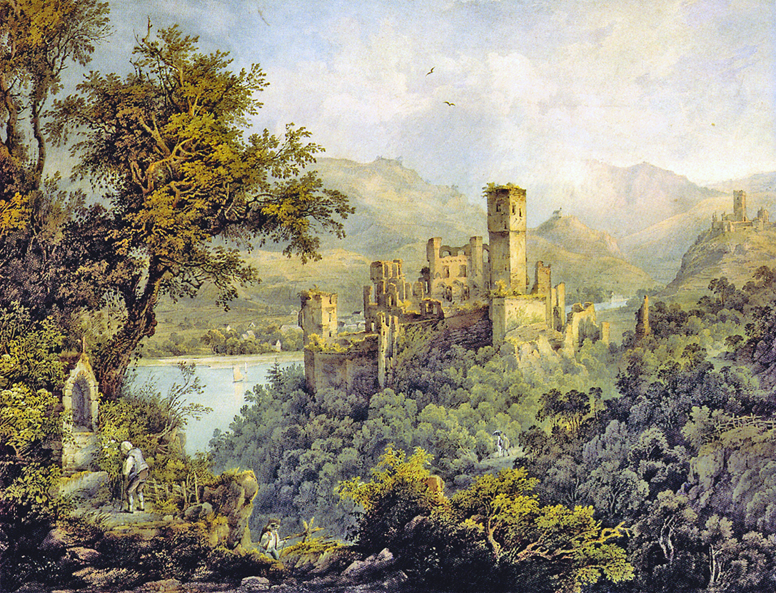 Stolzenfels Castle 1836, in the background Lahneck Castle. Watercolour over pencil by Karl Bodmer.